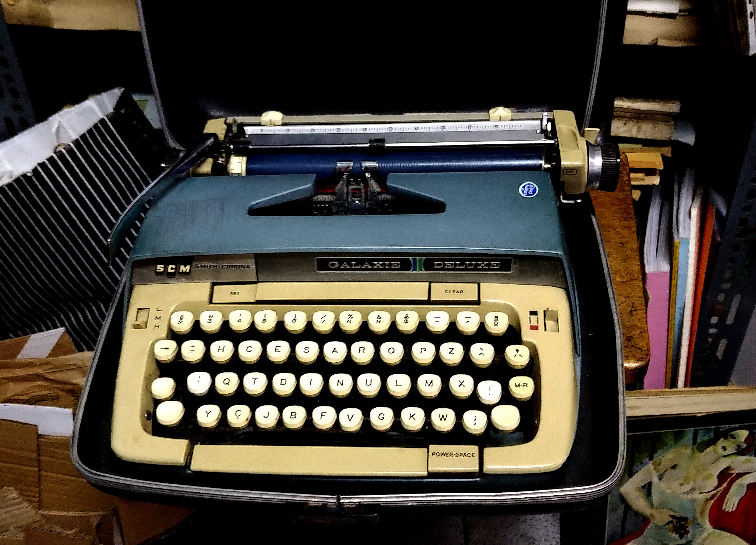 Smith-Corona Galaxie Typewriter with Portuguese HCESAR layout, 1960s. Photographed in Lisbon, August 2018.